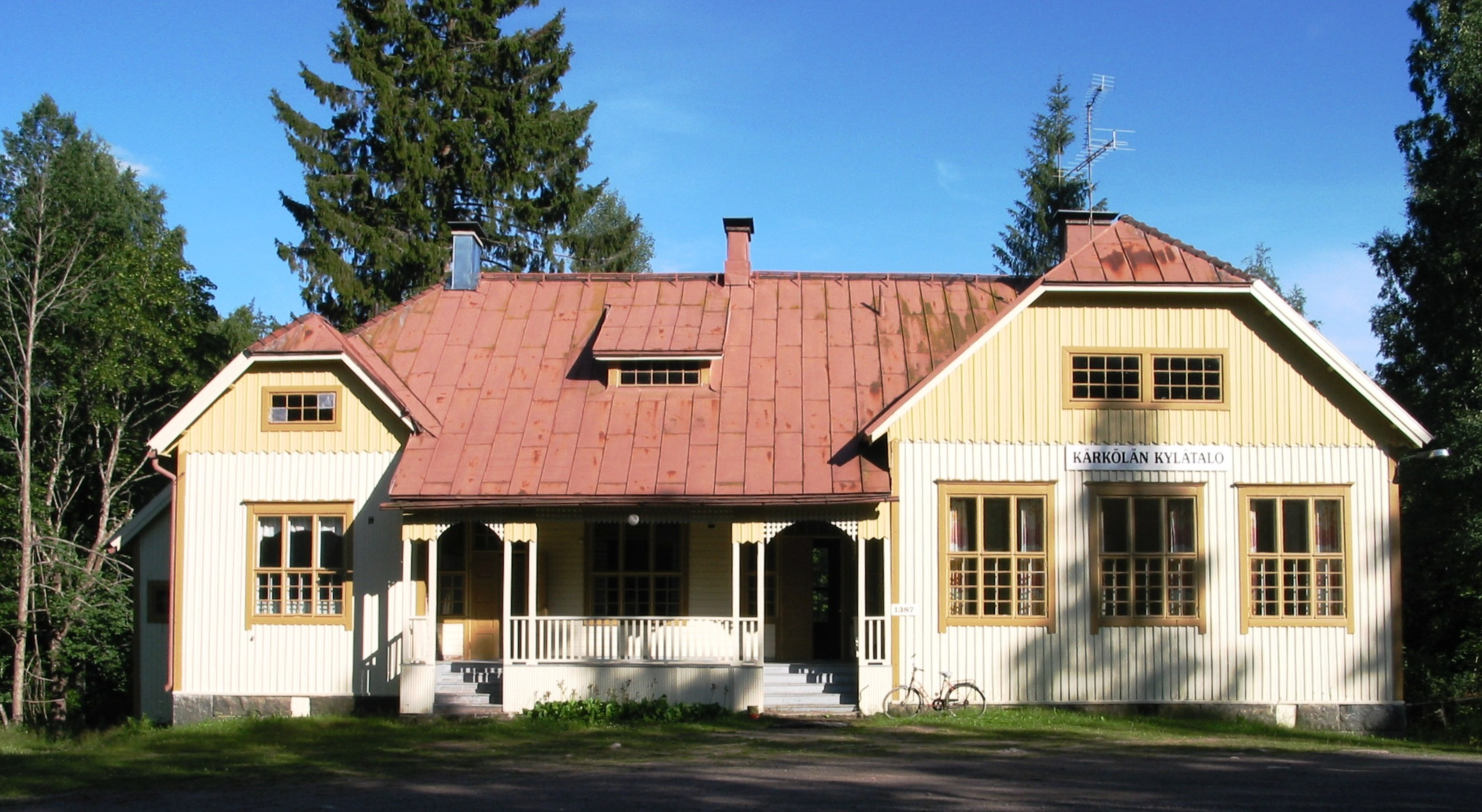 Kärkölä Village House, Kärkölä, Pusula, Lohja